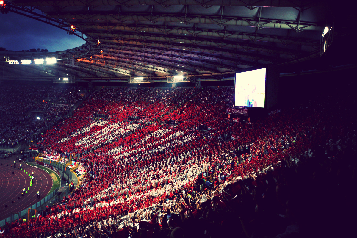 Manchester United FC fans form a mosaic reading "For Sir Matt" with an image of Matt Busby's face prior to the 2009 UEFA Champions League Final against FC Barcelona